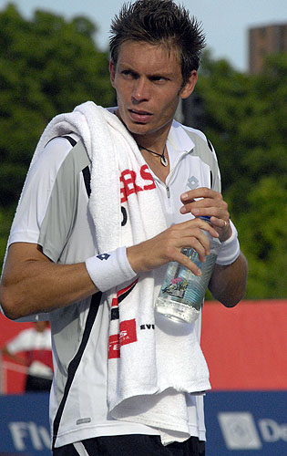 Nicolas Mahut practising at the 2008 Rogers Cup